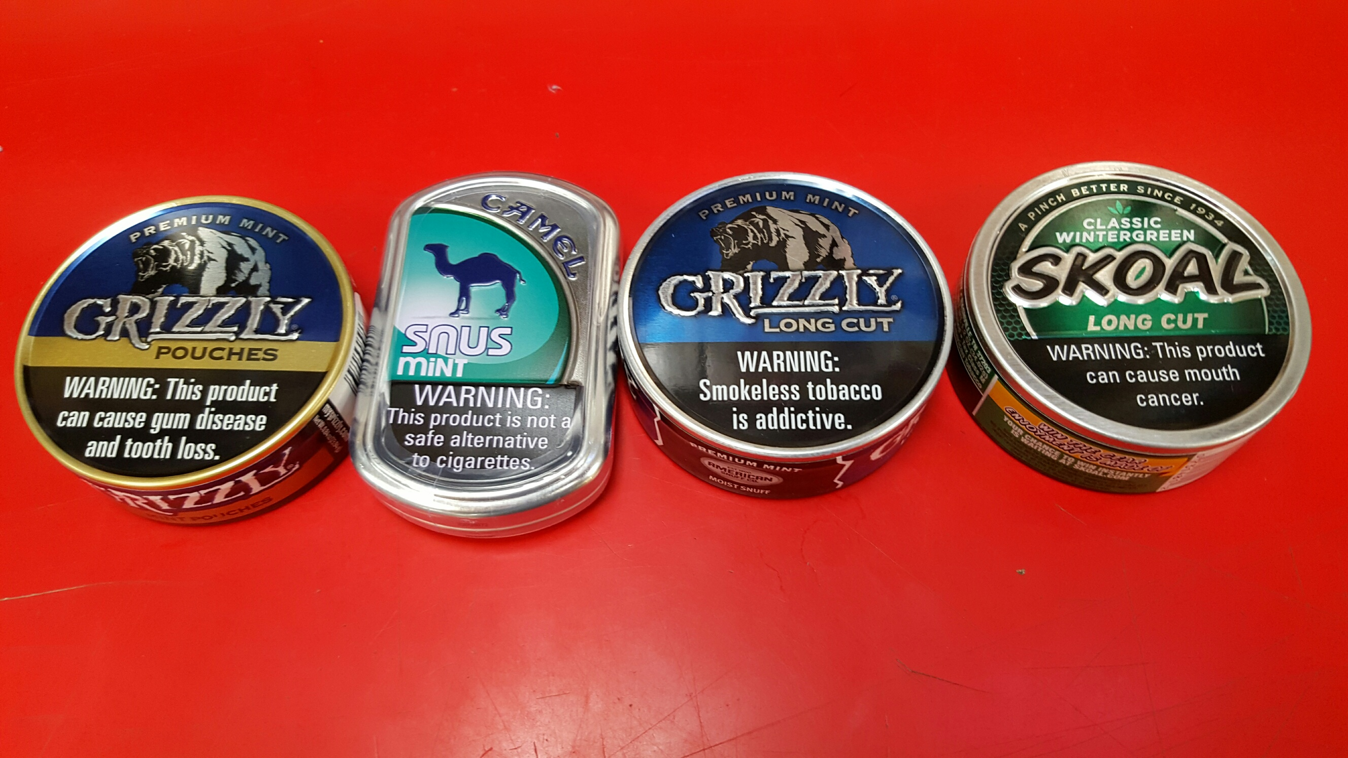 The four variants of warning labels used for smokeless tobacco, used on various smoking products.